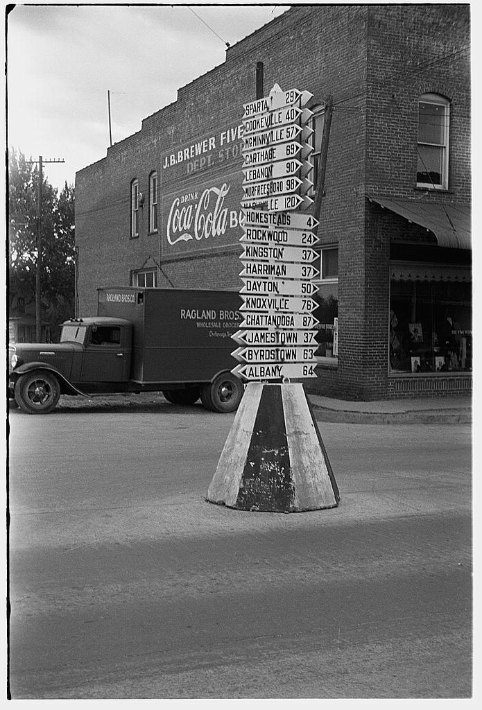 Title: "Signs". Crossville, Tennessee. Medium: 1 negative : nitrate ; 35mm. Call Number: LC-USF33-006224-M3 Reproduction Number LC-DIG-fsa-8a17089 DLC (digital file from original neg.) LC-USF33-006224-M3 DLC (b&w film nitrate neg.) Part of: Library of Congress: Farm Security Administration - Office of War Information Photograph Collection. Repository: Library of Congress Prints and Photographs Division Washington, DC 20540 USA